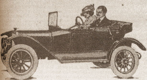 1915 Coey Bear